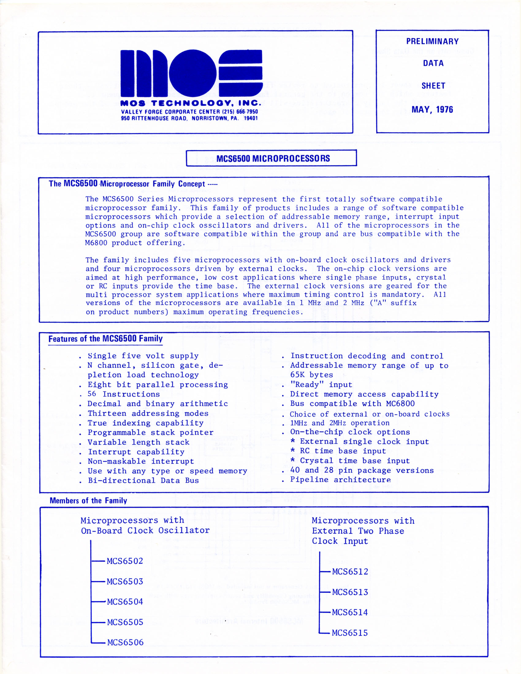 MOS Technology's MCS6500 Microprocessors Preliminary Data Sheet, May 1976. (Page 1 of 12.) The August 1975 version included the MCS6501 that was socket compatible with Motorola's MC6800 microprocessor. After a lawsuit, MOS Technology had to stop selling the 6501 and the datasheet was revised.